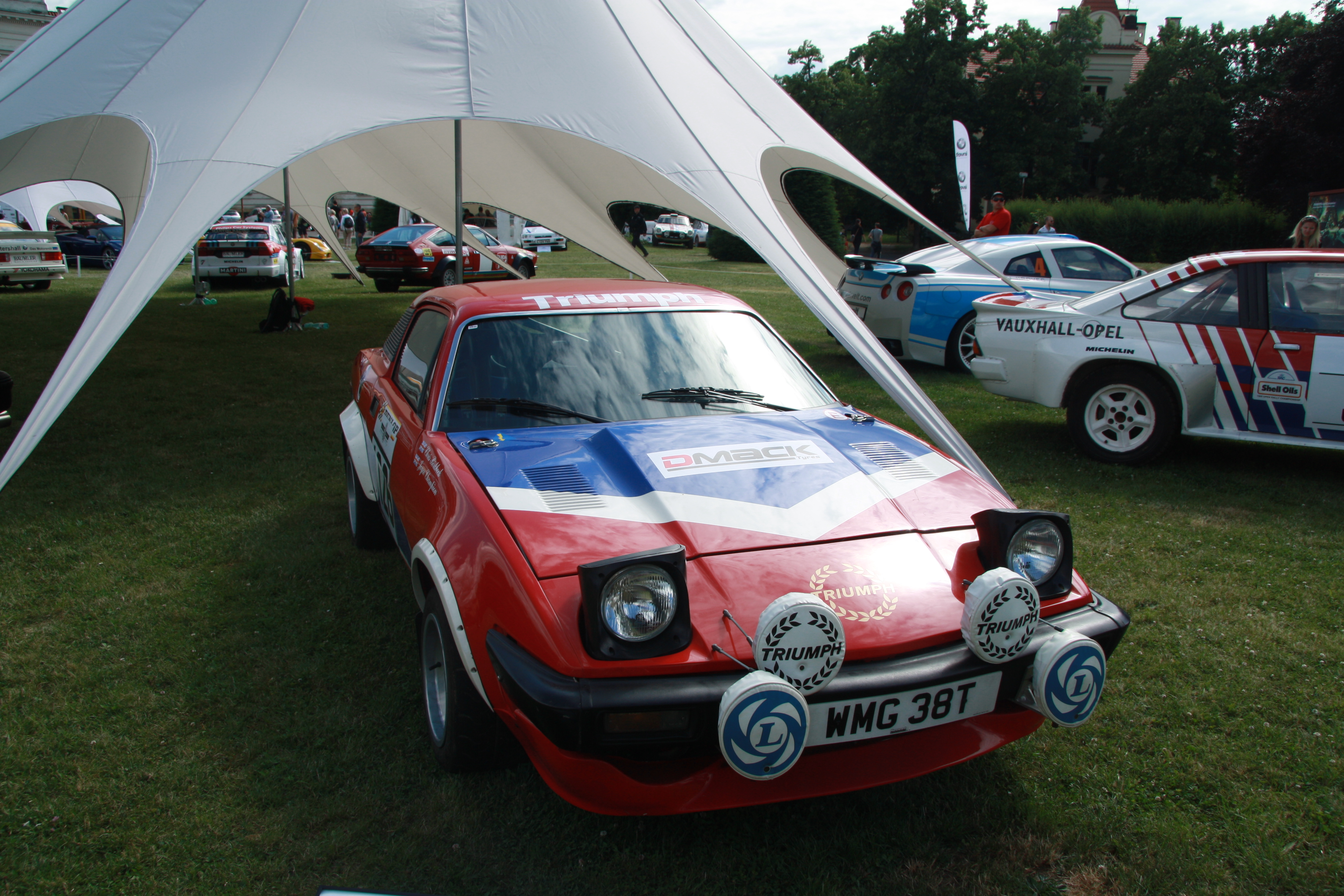 Triumph TR 7V8 at Legendy 2014.